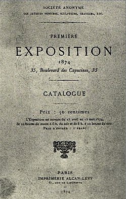 Cover of the catalogue Première Exposition 1874 35, boulevard des Capucines, by the Société anonyme des artistes peintres, sculpteurs et graveurs, etc... Printed in Paris by Alcan-Lévy. Price : 50 centimes.